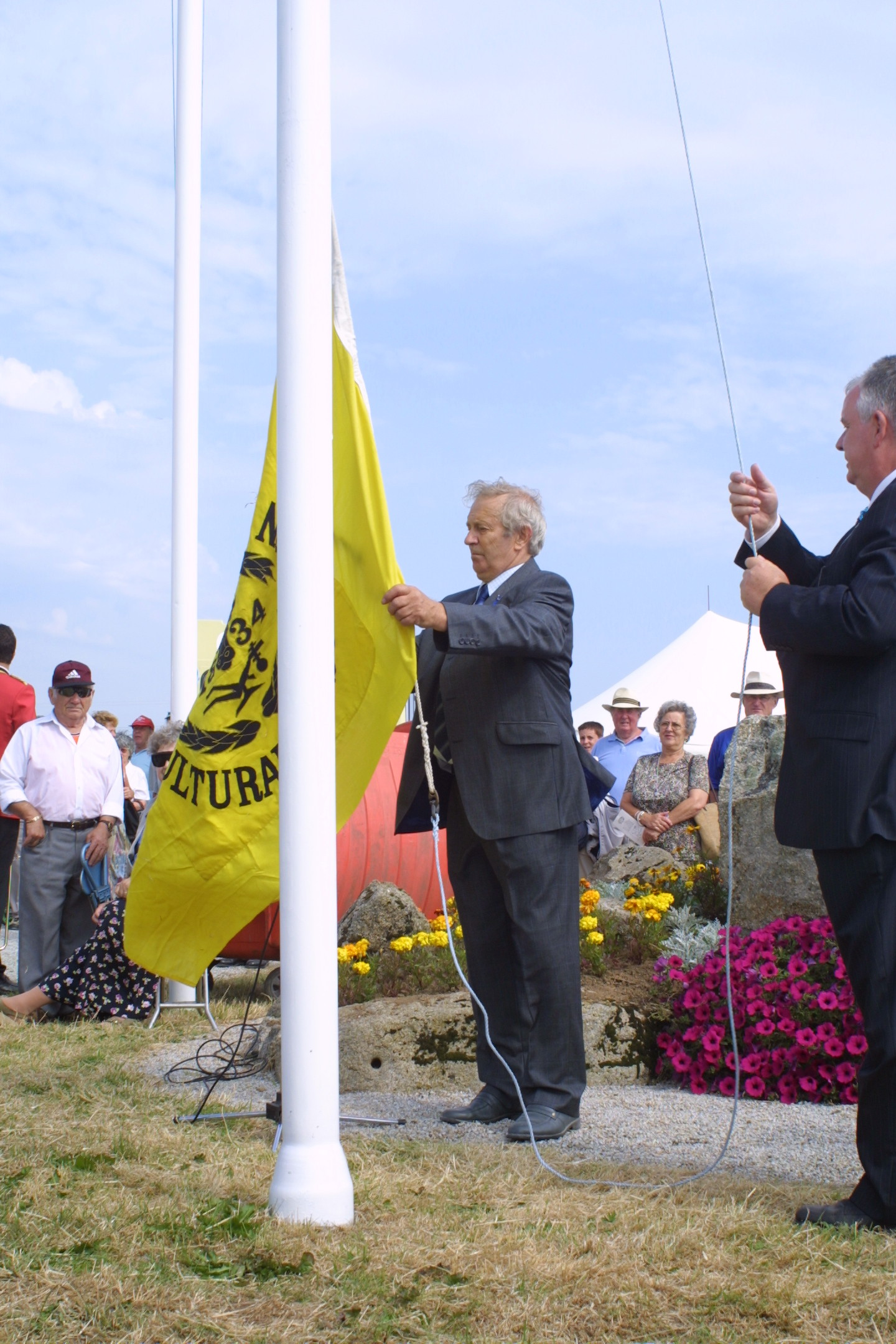 The hoisting of the Stithians Show Flag in July 2003.